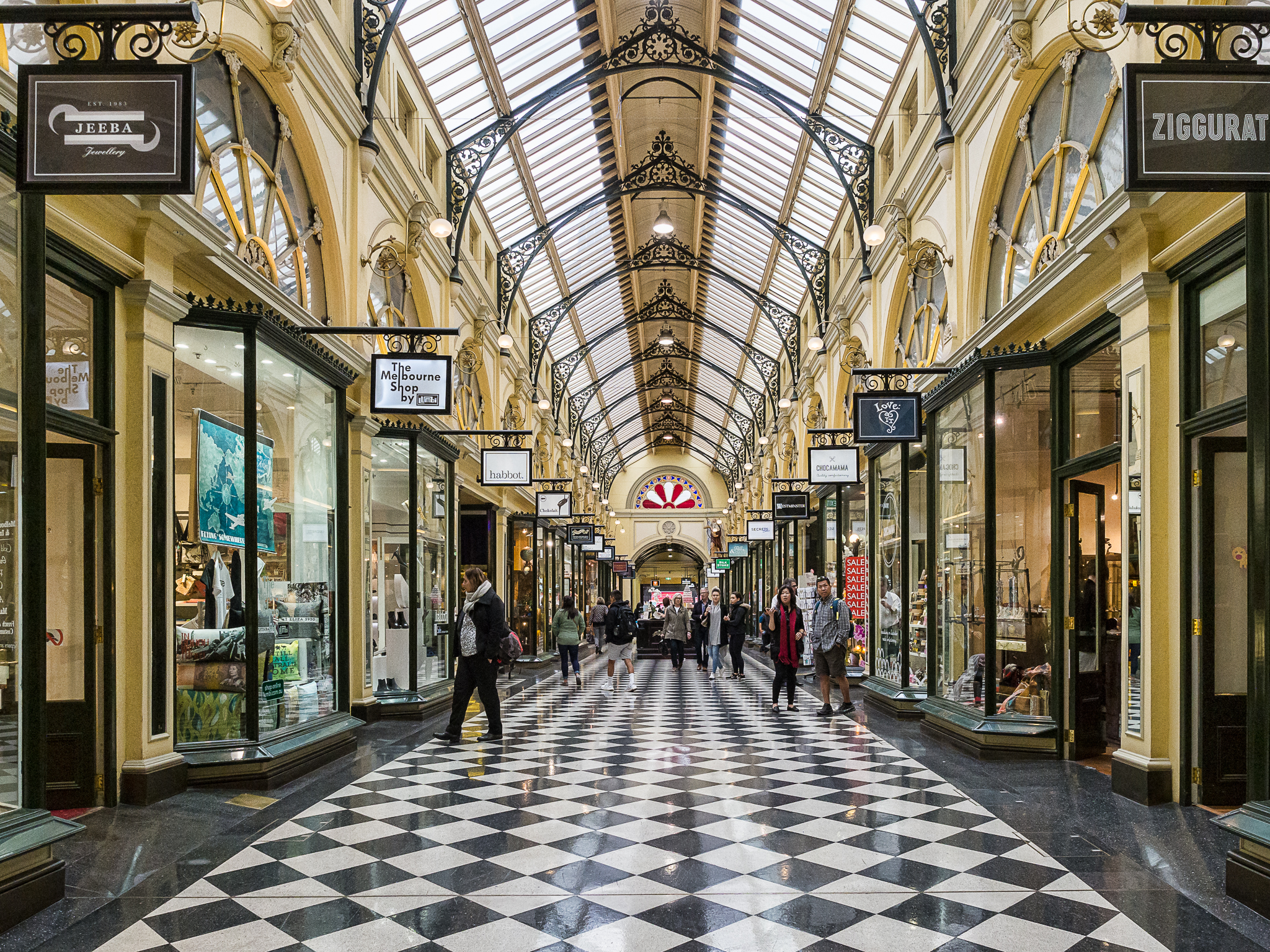 The Block Arcade is an old but beautiful shopping arcade in the Melbourne CBD.